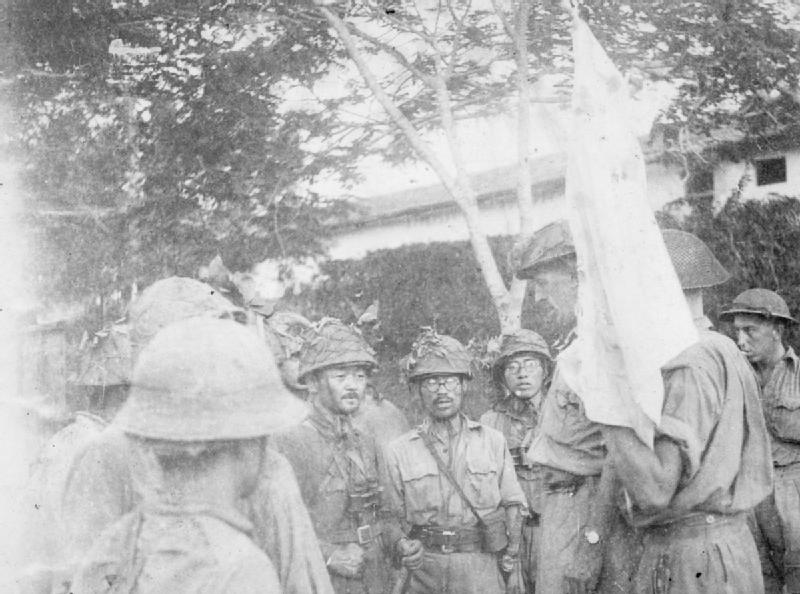 The War in the Far East 1939 - 1945 Japanese officers stand with Lieutenant-General Arthur Ernest Percival following the surrender of British forces on 15 February 1942.